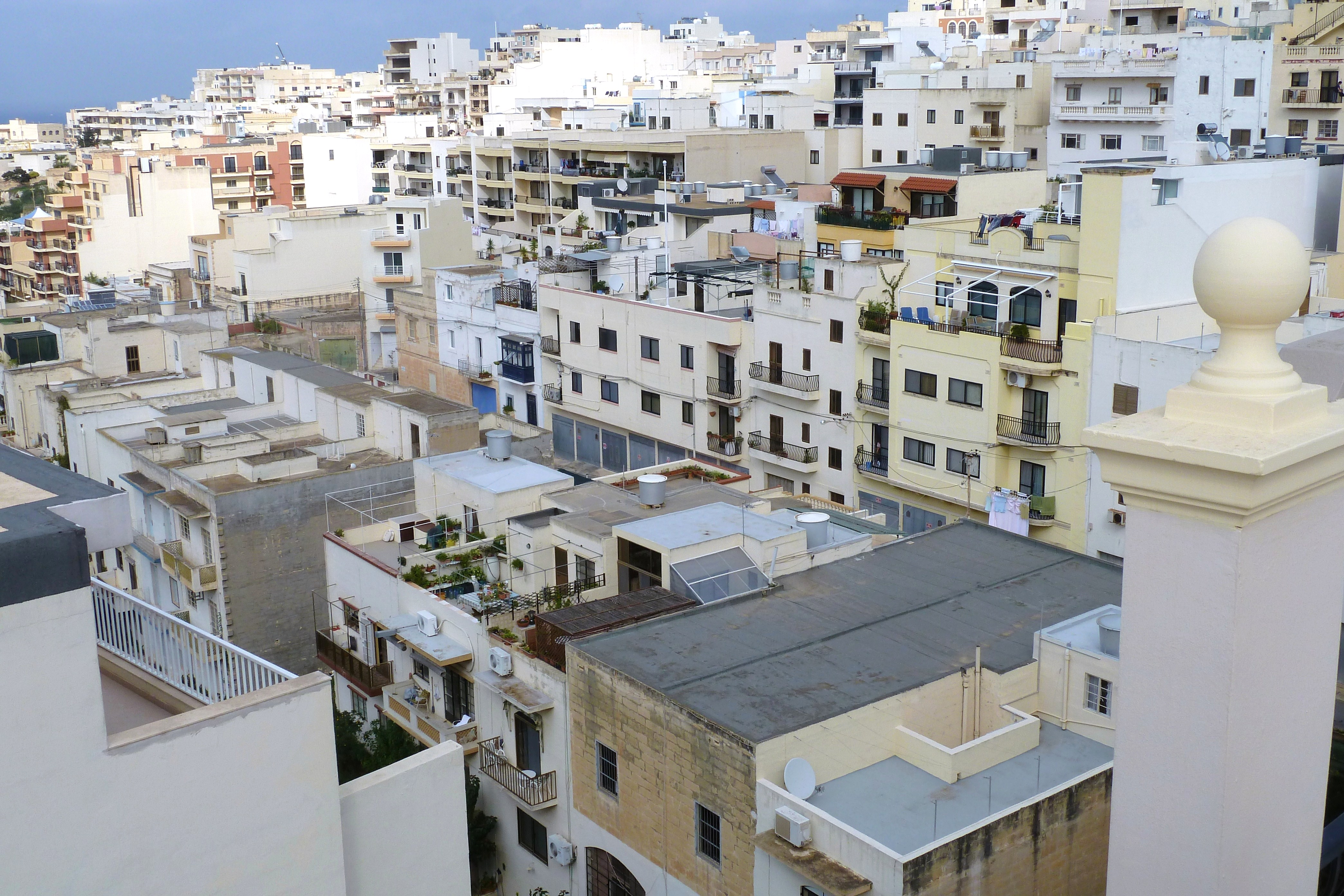 View over the town of Mellieha in Malta